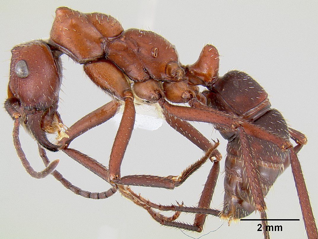 Profile view of ant Ectatomma opaciventre specimen casent0106081.